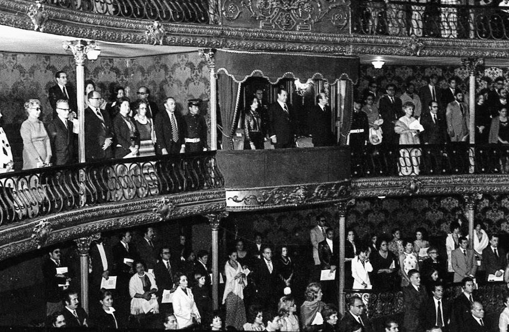 Visita del presidente Rafael Caldera, la primera dama Alicia Pietri y el secretario de la presidencia, Luis Alberto Machado.